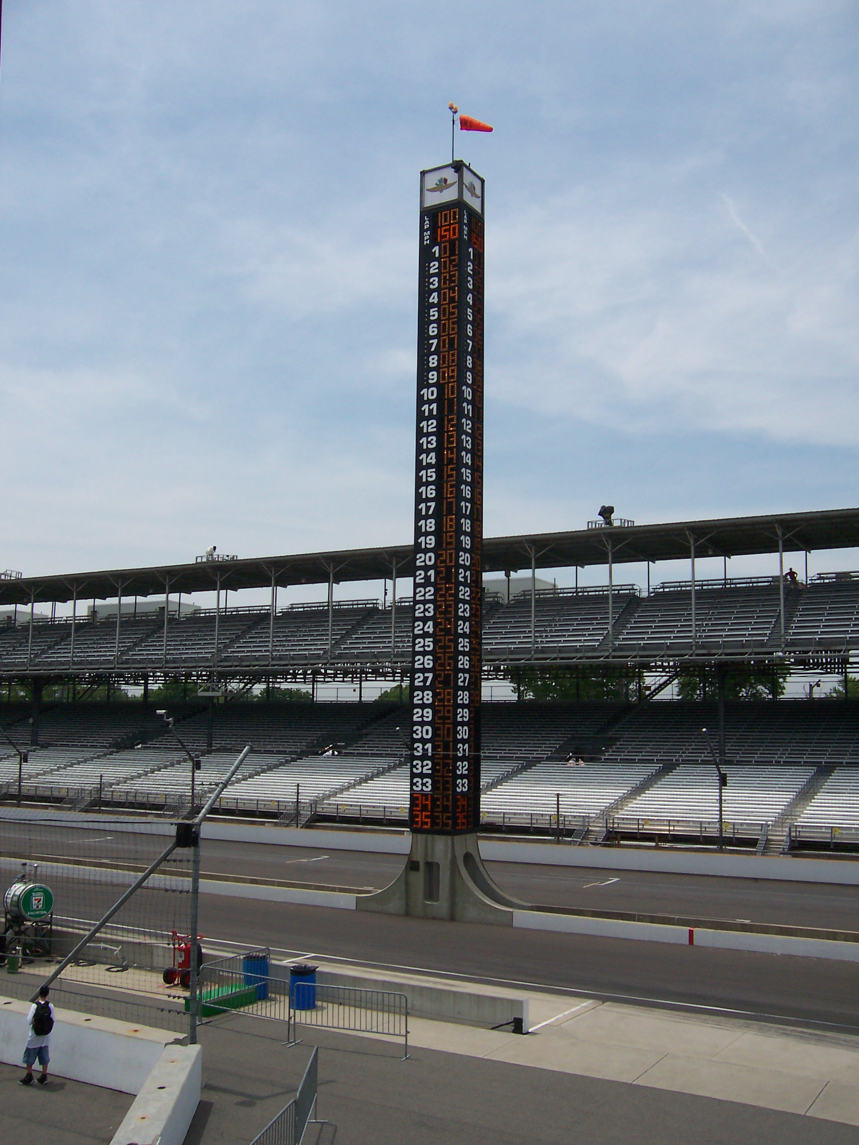 Photo of the scoring pylon at the Indianapolis Motor Speedway, Speedway, Indiana, USA. This photo was taken by myself personally on May 27, 2006.